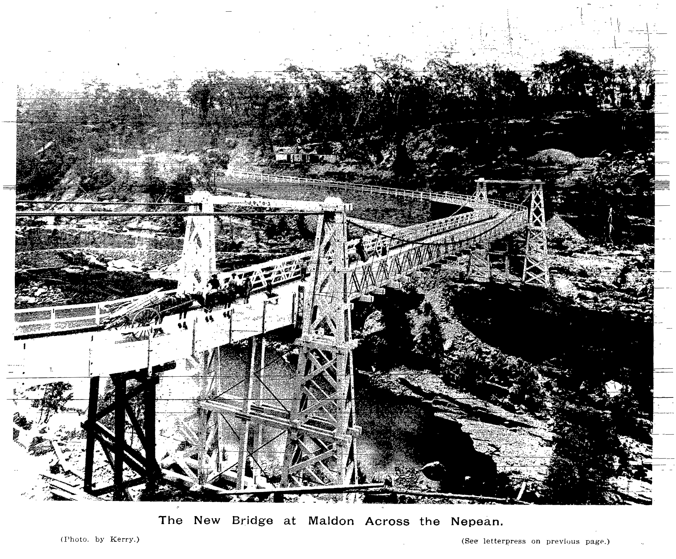 Newly built Maldon Bridge over Nepean River, NSW, Australia 1903